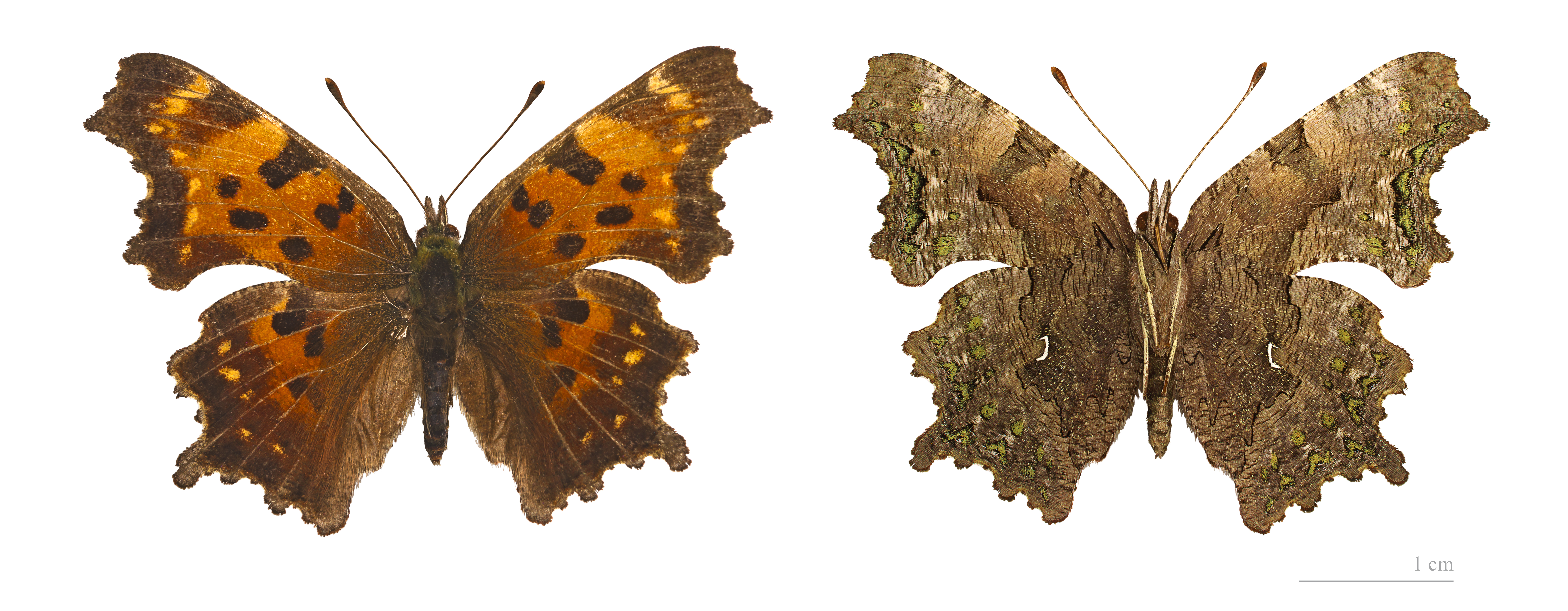 Green Comma ♂ - Two views of same specimen Locality: Camp Mercier, Réserve faunique des Laurentides, Quebec, Canada